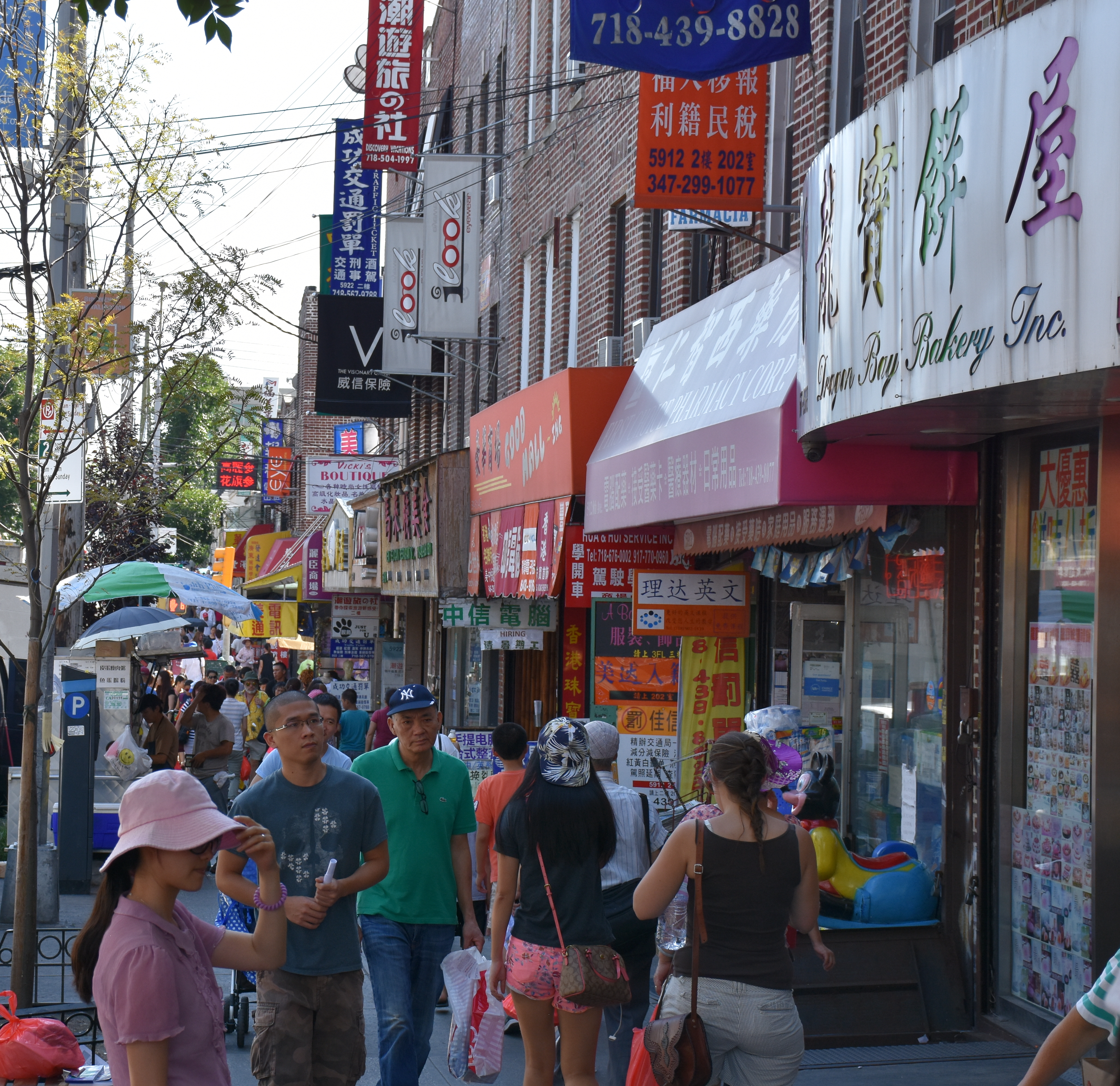 Sunset Park, Brooklyn looking south from 57th St